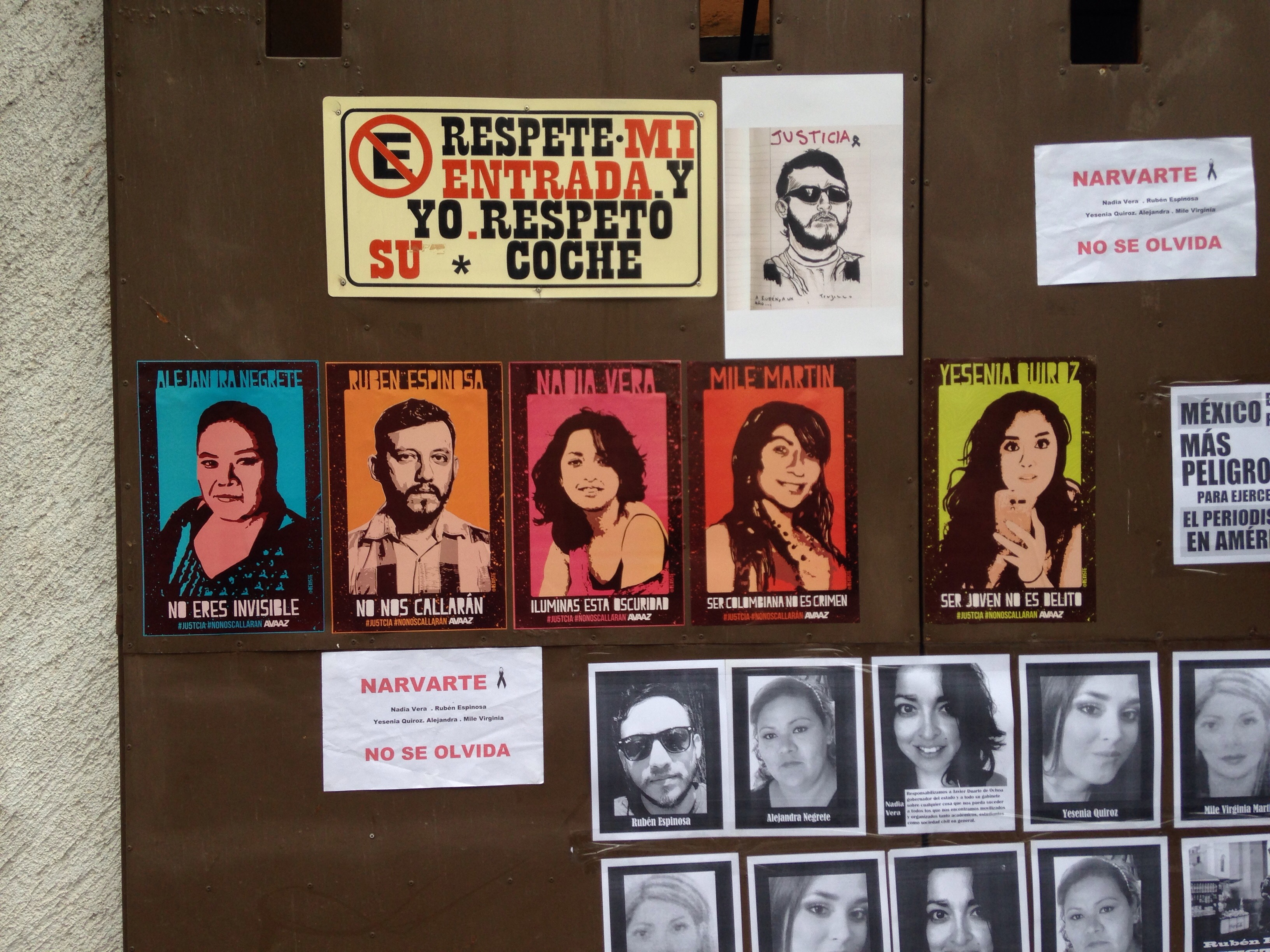 First anniversary protest of the Narvarte murder case, outside the building where died Mile Martín, Yesenia Quiroz, Alejandra Negrete, activist Nadia Vera, and photojournalist Rubén Espinosa. Colonia Narvarte, Mexico City.